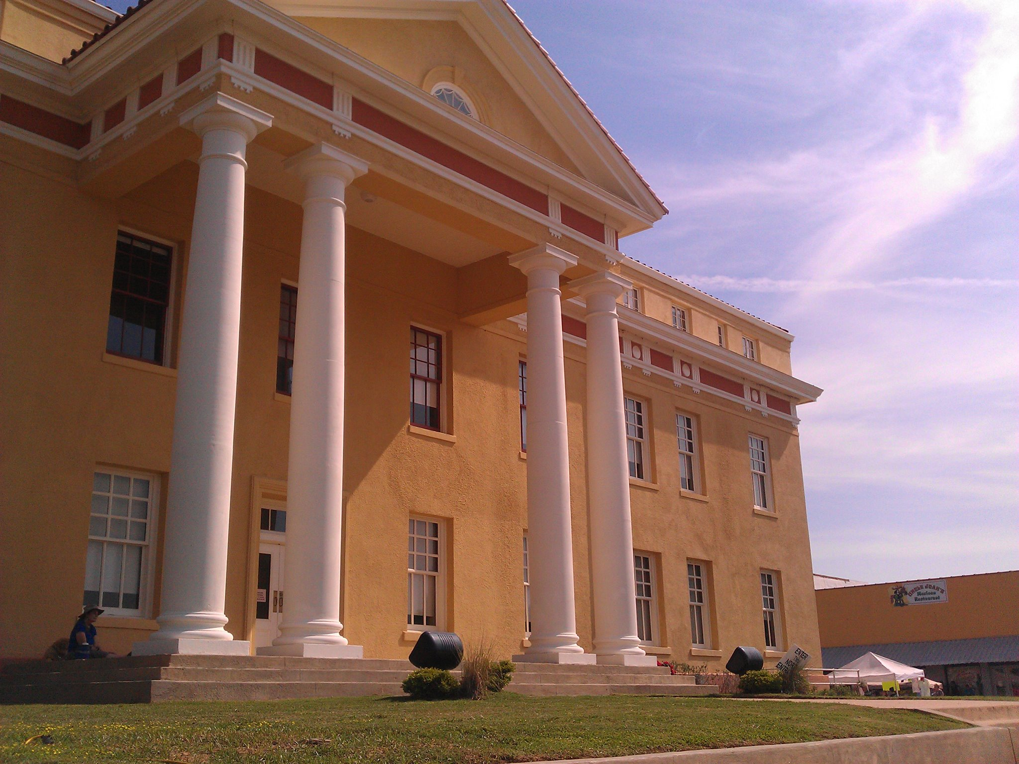 Cass County Courthouse (Linden, Texas)